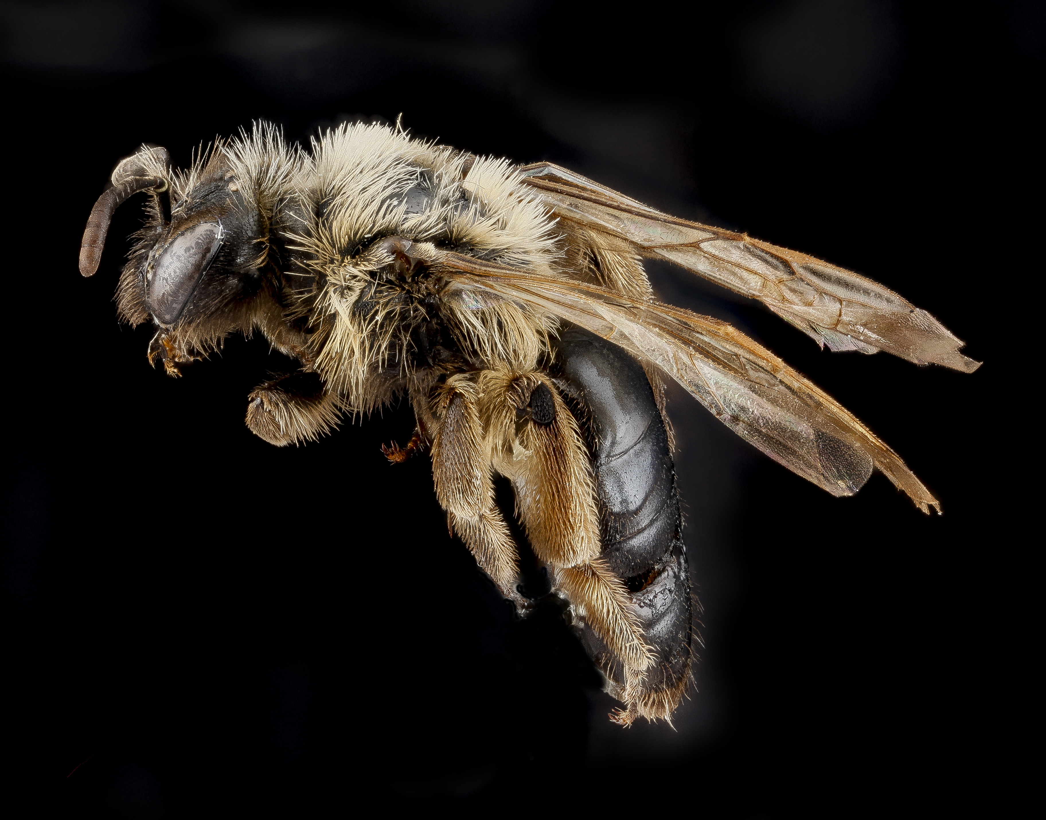 Andrena merriami, South Dakota, Badlands National Park